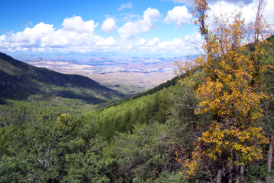 A photo I took in the Pinal Mountains in southern Arizona.